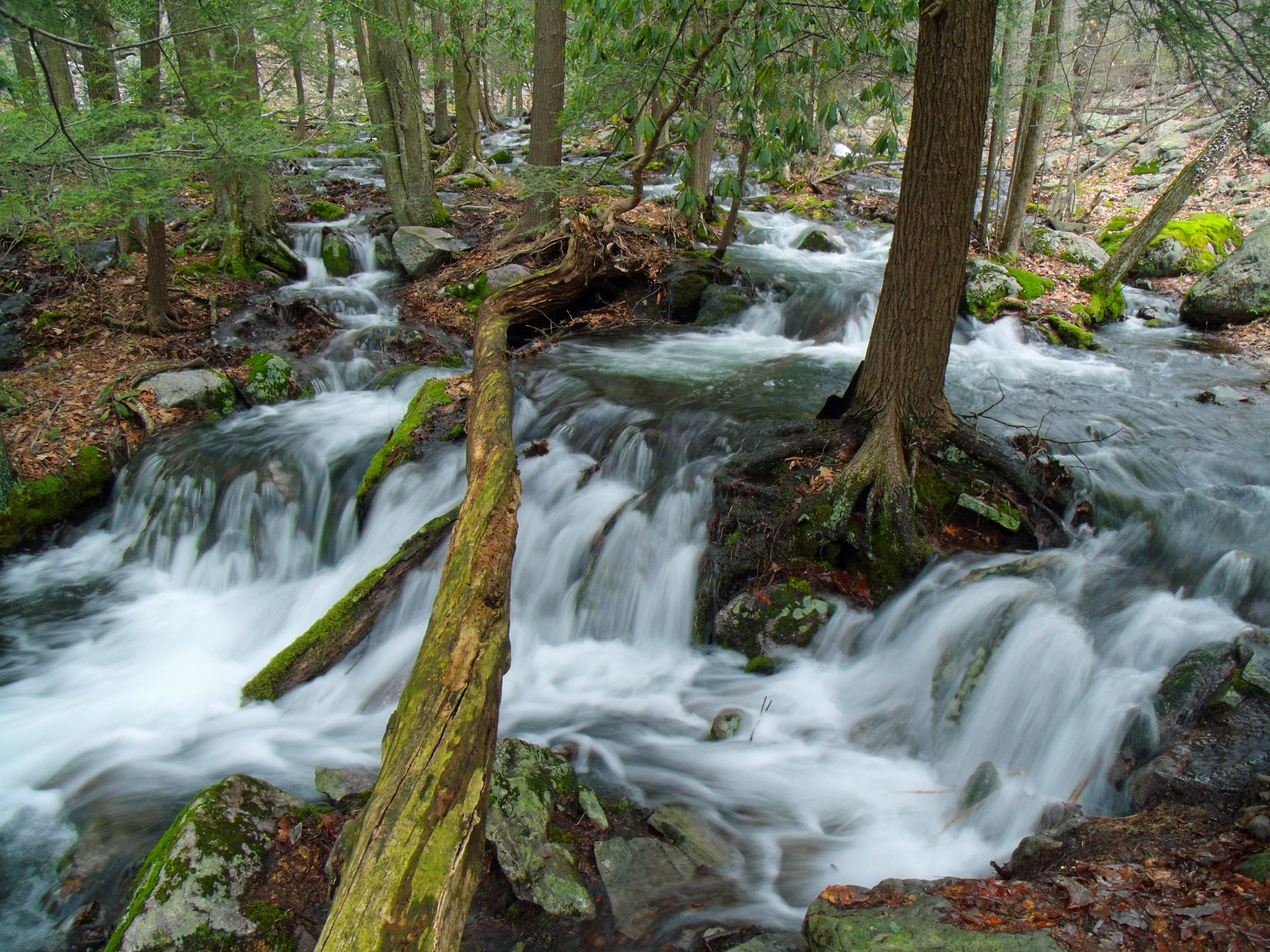 State Game Land 38, Jackson Township, Monroe County. Appropriately named, Fall Creek descends the Pocono Plateau in a deep, narrow, hemlock- and rhododendron-filled ravine.